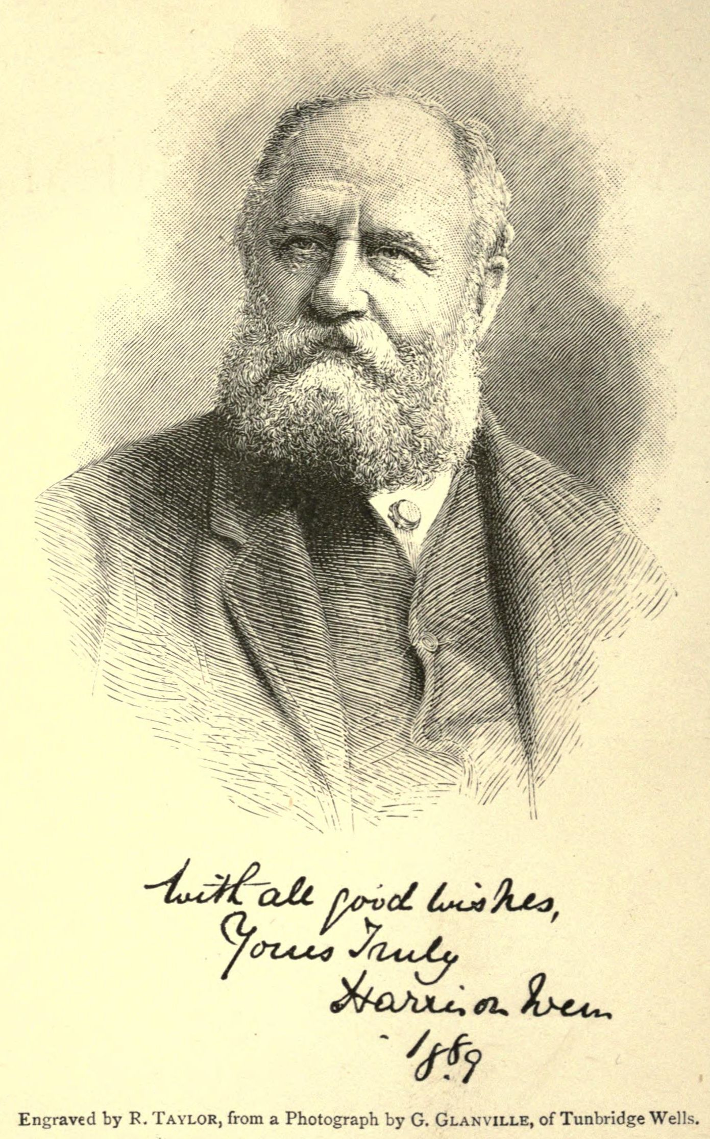 Harrison Weir. Father of cat fancy/shows. Engraving by R. Taylor from a photograph by G. Glanville